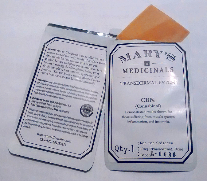 Mary's Medicinals brand CBN (Cannabinol) 10 mg transdermal patches from a dispensary in Colorado, USA